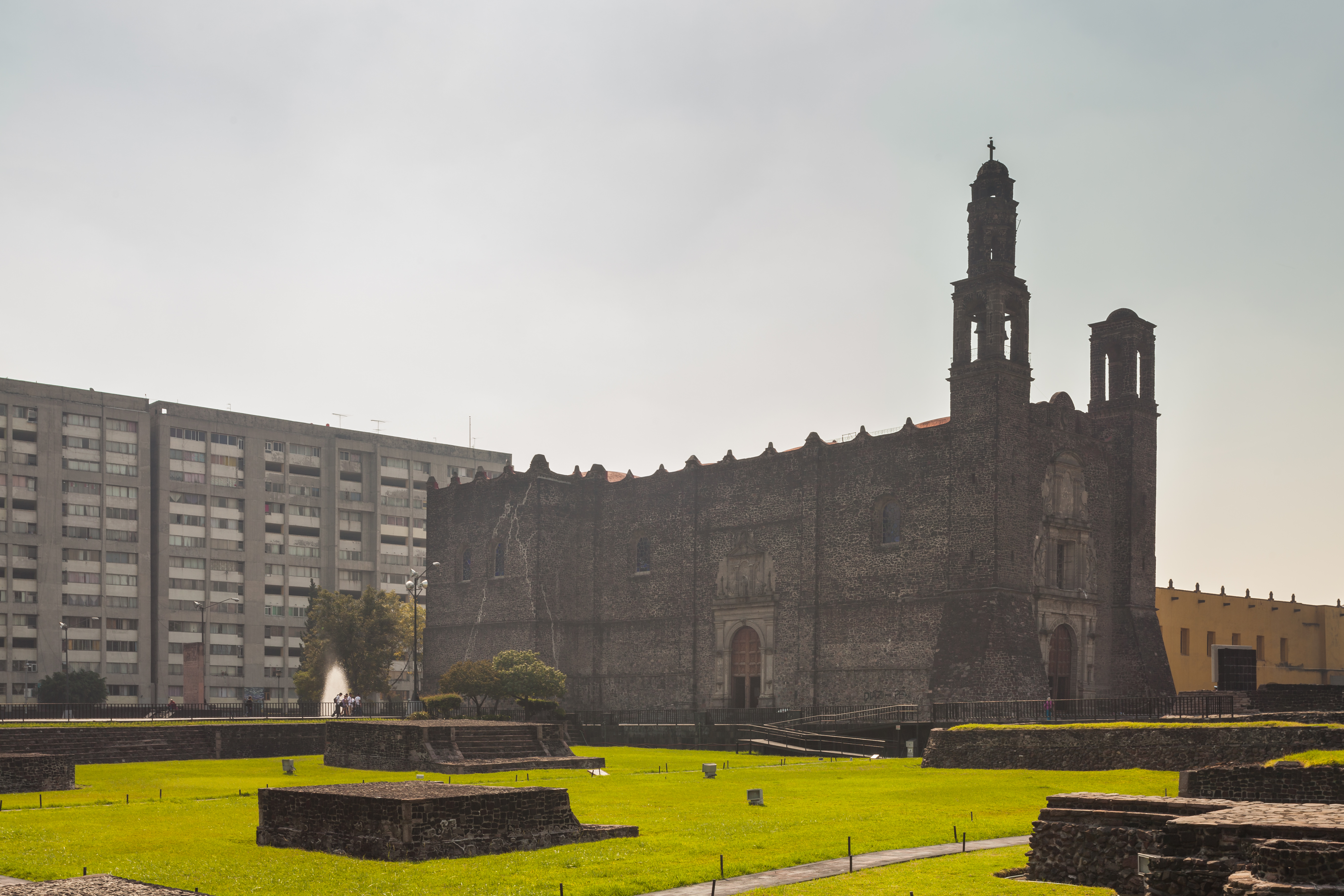 Church of Santiago Tlatelolco, Mexico City, Mexico